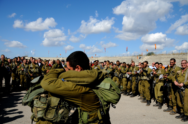 March 17, 2012 Last week, the new recruits of the Combat Engineering Corps conducted a 40km long beret march. Upon its completion, the excited soldiers could finally celebrate their success together. Above are two soldiers who demonstrate what true IDF friendship is all about. The Israel Defense Forces Facebook The Israel Defense Forces blog Follow us on Twitter